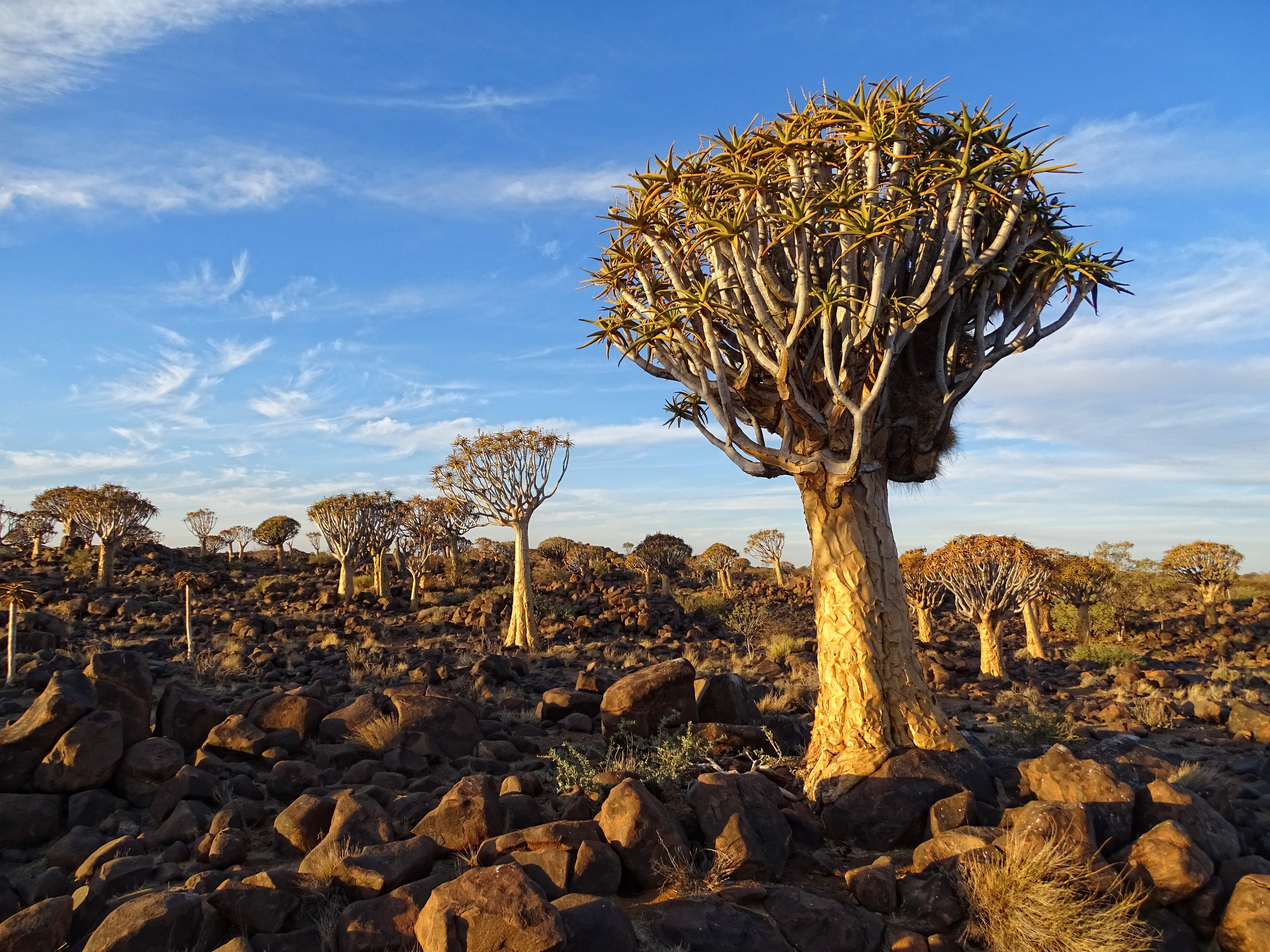 Quive trees at the national monument Quiver Tree Forest near Keetmanshoop in southern Namibia.